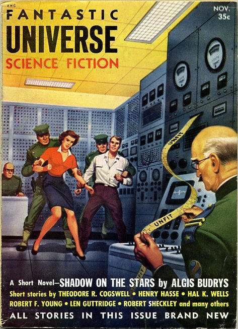 Cover of November 1954 issue of Fantastic Universe. Artist is Alex Schomburg. Copyright was held either by Schomburg, or more likely by King-Size Publications, Inc, who published the magazine. Since the magazine was published in the U.S. before 1964, the original copyright lasted 27 years from the end of the year of publication. The copyright holder was free to renew the copyright any time during the year 1981, but they did not do so. (All copyright renewals since 1977 are on file at the United States Copyright Office, and can be searched online. The copyrights on certain individual stories were renewed, but the copyright on the cover was not.) The copyright has expired. Original uploader information 03:08, 17 December 2006 . . . . 473×653 (112,170 bytes) (Cover of November 1954 issue of Fantastic Universe. Artist is Alex Schomburg. Copyright is either Schomburg, or more likely King-Size Publications, Inc, who published the magazine; it may also have expired.